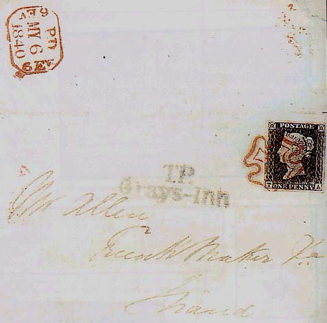 Very scarce use of the world's first postage stamp Penny Black used on first day of valid use, May 6, 1840, tied by red Maltese Cross cancel on folded cover to Warwickshire, brown "C MY-6 1840" first day datestamp on backflap verifies date of use. Sold as lot 1018 at Robert Siegal 2006 Rarities of the World auction for $45,000.